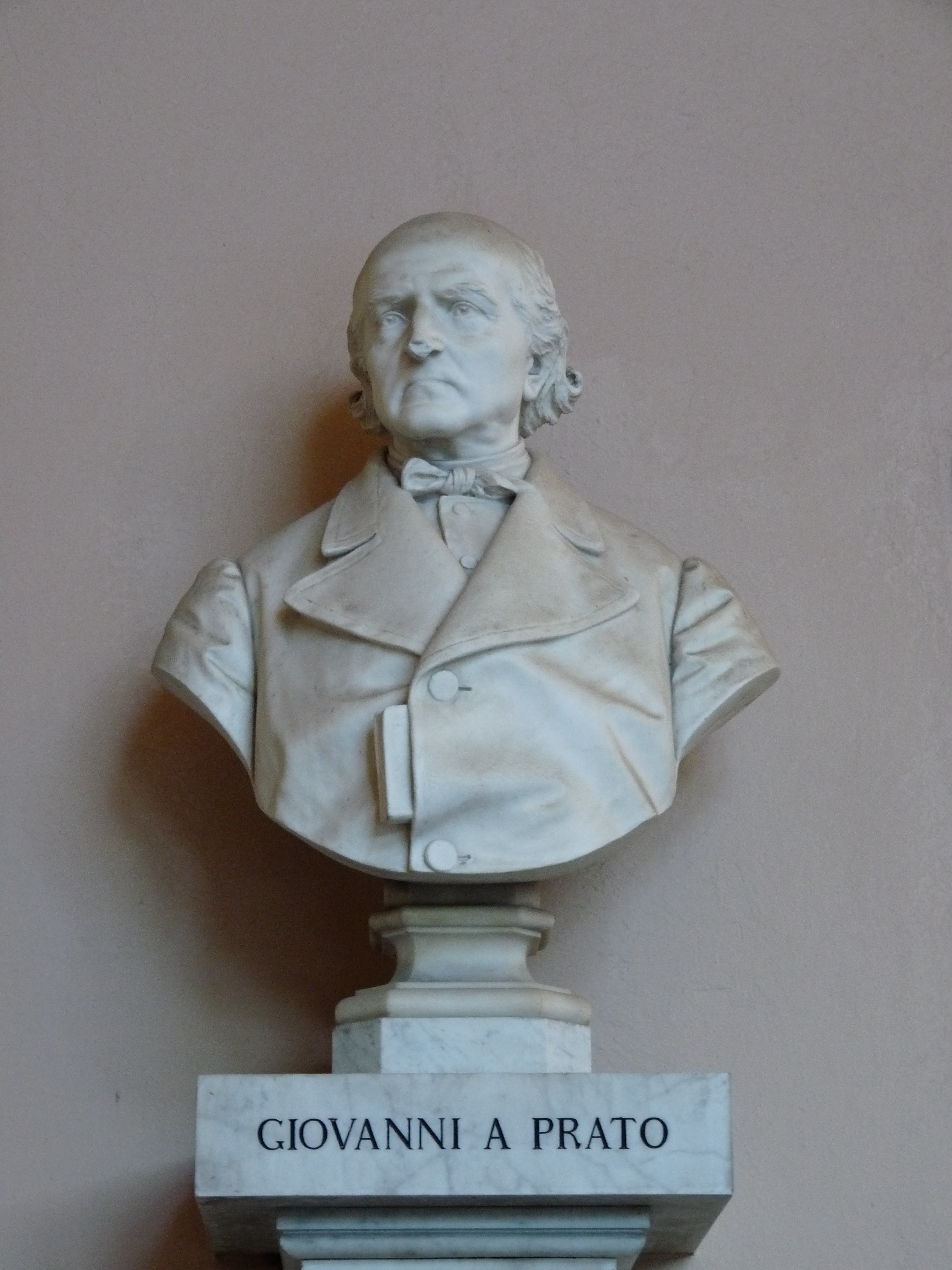 Trento (Italy): bust of abbot Giovanni a Prato by Andrea Malfatti, in the monumental cemetery of Trento.